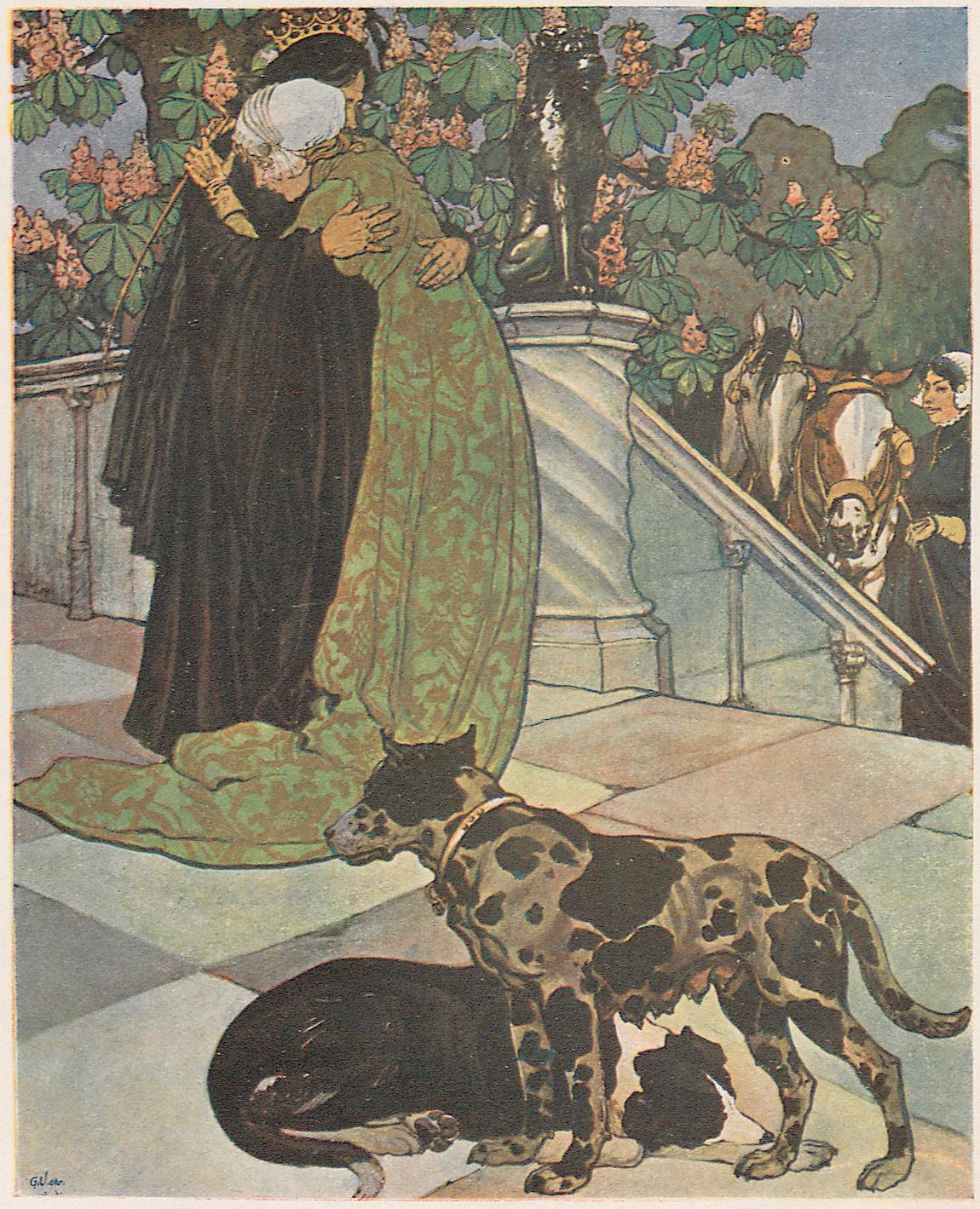 From the fairy-tale, published in 1902 in volume 8 of Ver Sacrum.